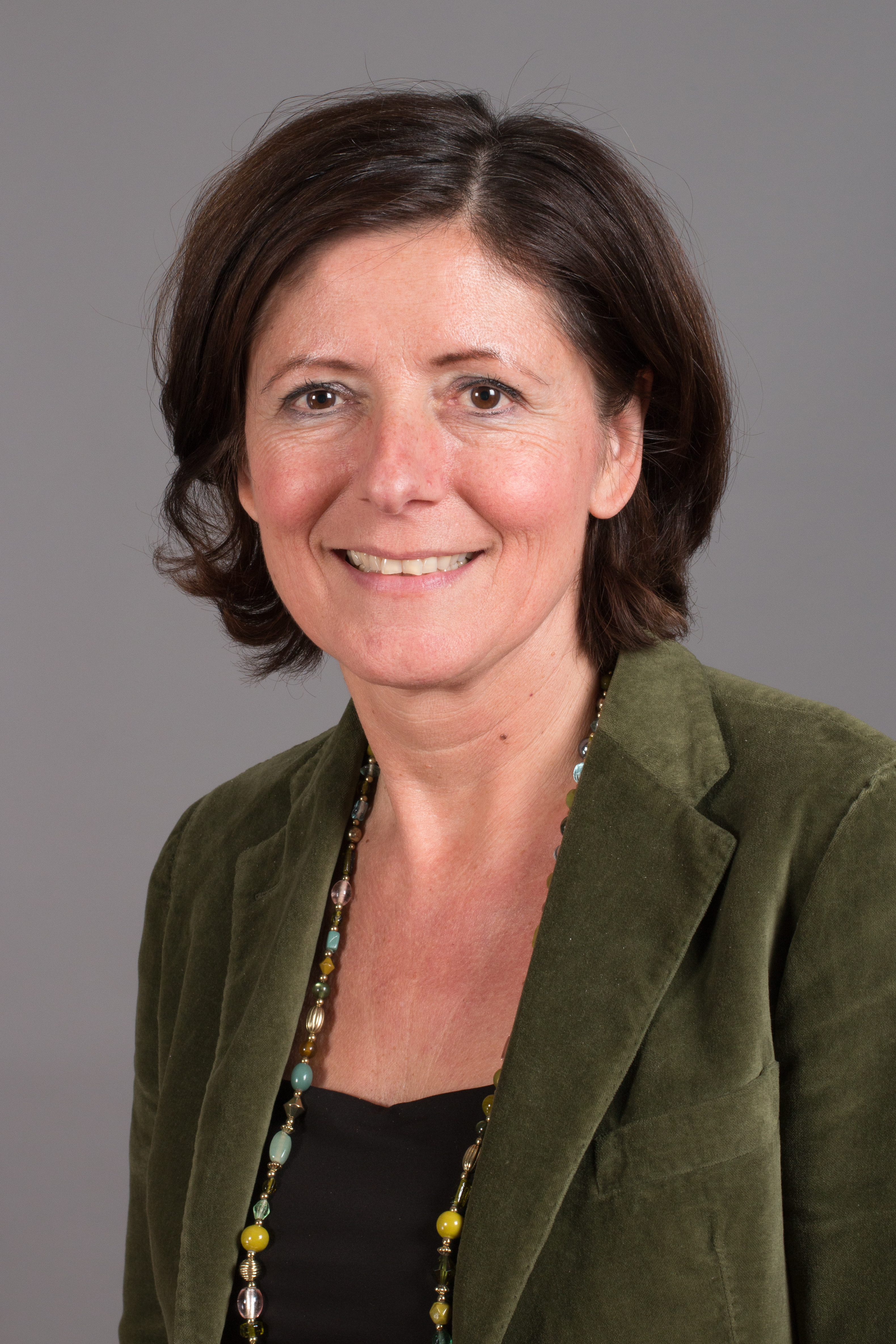 Malu Dreyer, SPD, Minister-President of the German state of Rhineland-Palatinate